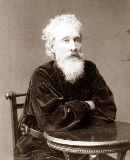 Russian writer Pavel Vladimirovich Zasodimsky